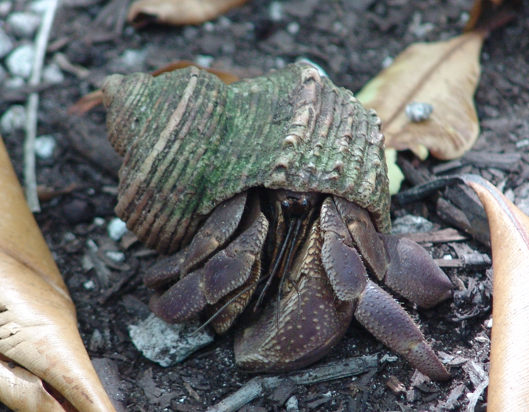 Juvenile in shell Diego Garcia (Chagos Archipelago) British Indian Ocean Territory